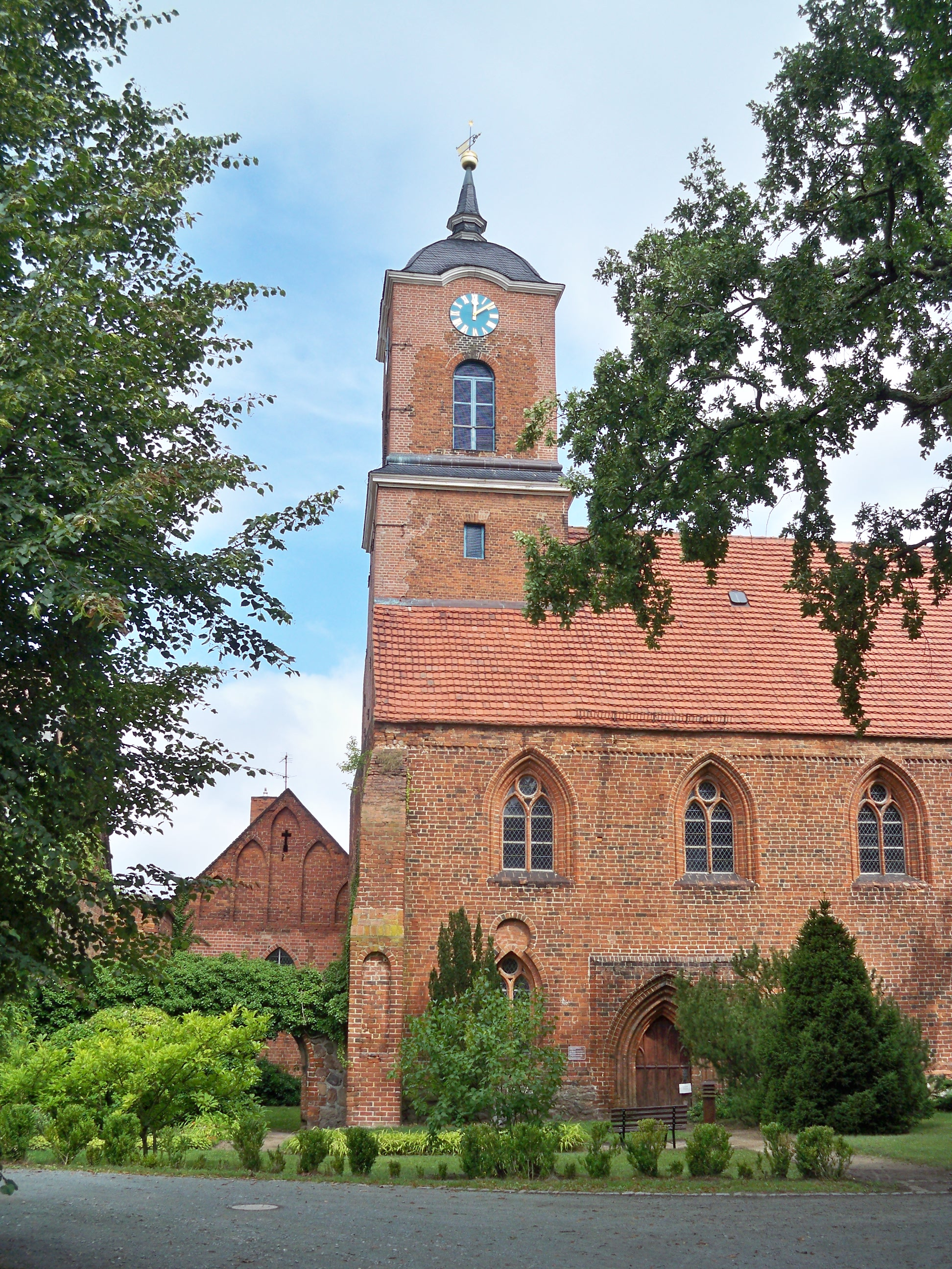 Kloster Neuendorf, Gardelegen, Saxony-Anhalt, monastery church und adjacent former monastery building from south